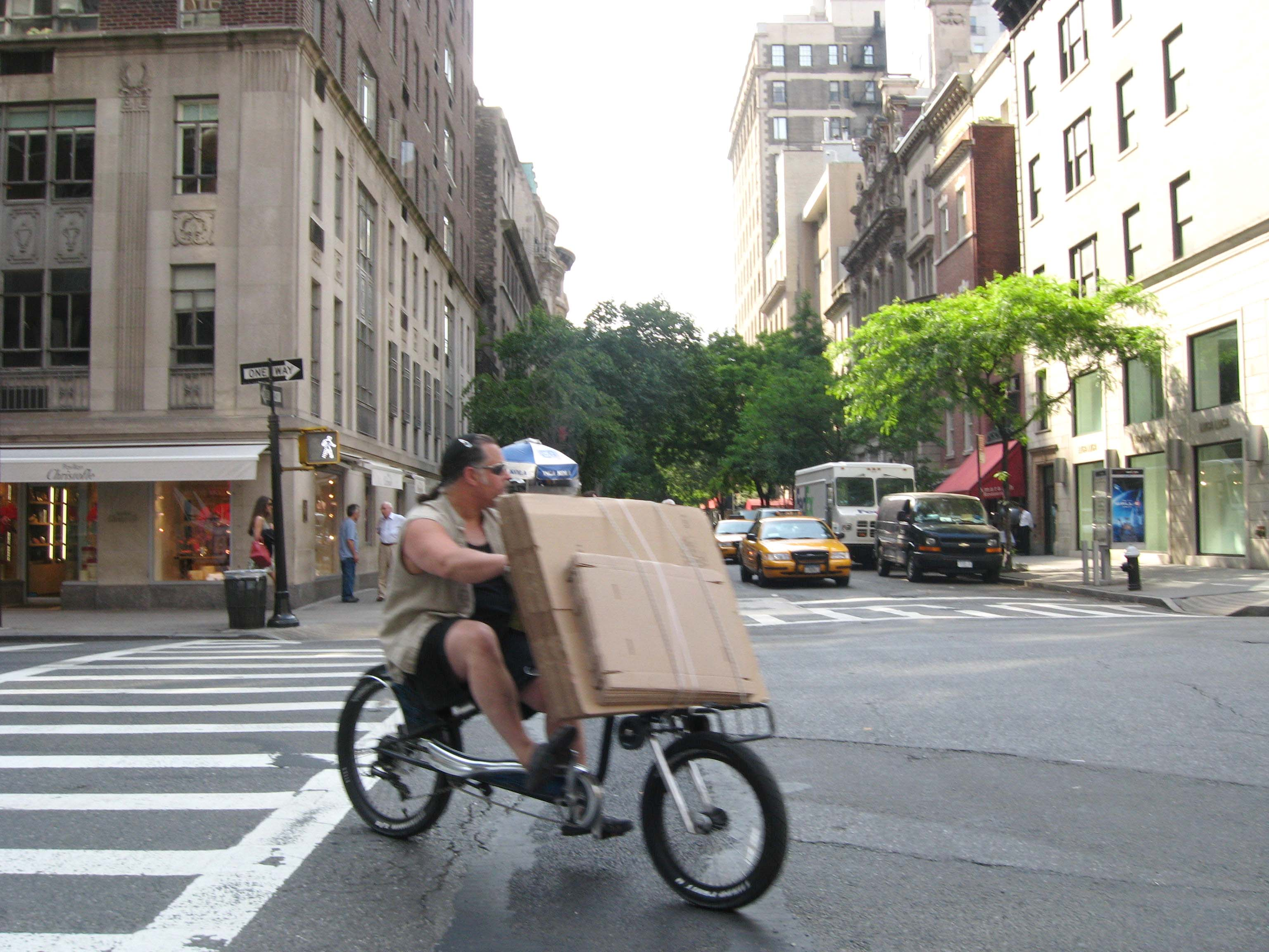 Looking west on a sunny early afternoon of Tuesday June 3 2008 at bike carrying collapsed corrugated boxes at Madison Avenue (Manhattan) and 62d Street in Cycling in New York City.